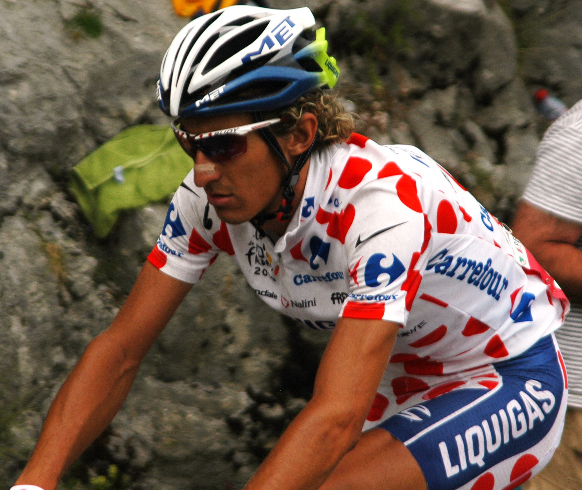 Franco Pellizotti (ITA) at stage 17 of the 2009 Tour de France on the Col de la Colombière.